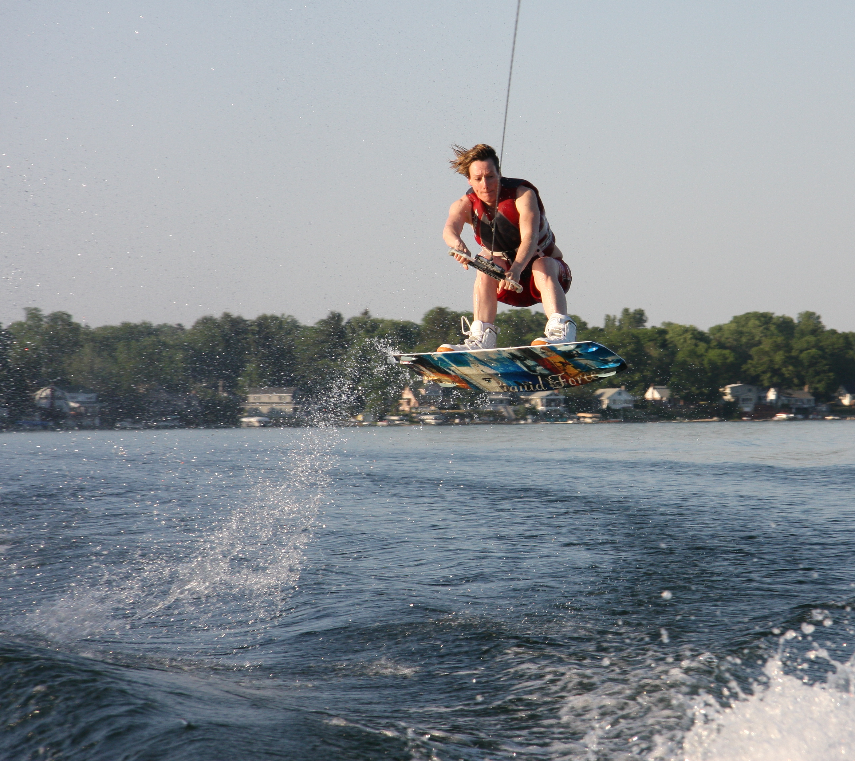 Wakeboarding at Keuka Lake, New York, United States.